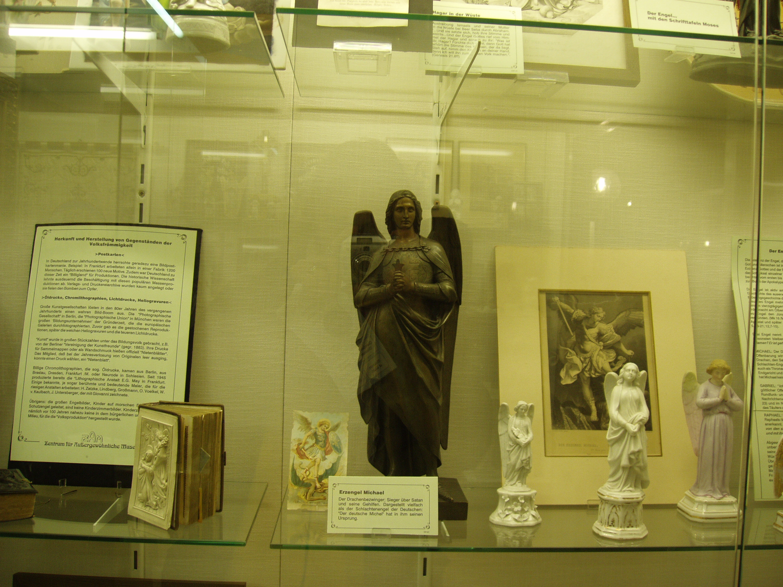 At the Center for Extraordinary Museums (closed down in 2005) (ZAM - Zentrum für aussergewöhnliche Museen), Munich. Also, reflected traces of yours truly. Published in the online Schmap Munich Guide , second edition. Frankly, I'm a bit surprised, as I don't think it's a very good photo. But then, conditions for phototaking were hardly satisfactory (and Olympus C-5000Z is hardly an ideal camera for unmounted lowlight photos). What makes the story even stranger is that the museum has since closed down, so including it in a city guide seems like a weird move.